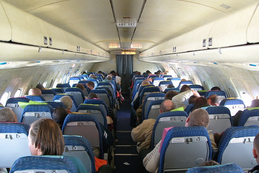 Sakhalin - Vladivostok route.